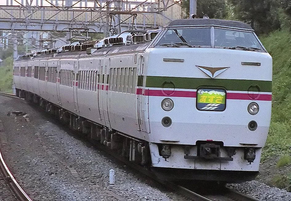 A JR East 183 series EMU on an Azusa limited express service in "Grade-up Azusa" livery (probably taken in the late 1980s or early 1990s)